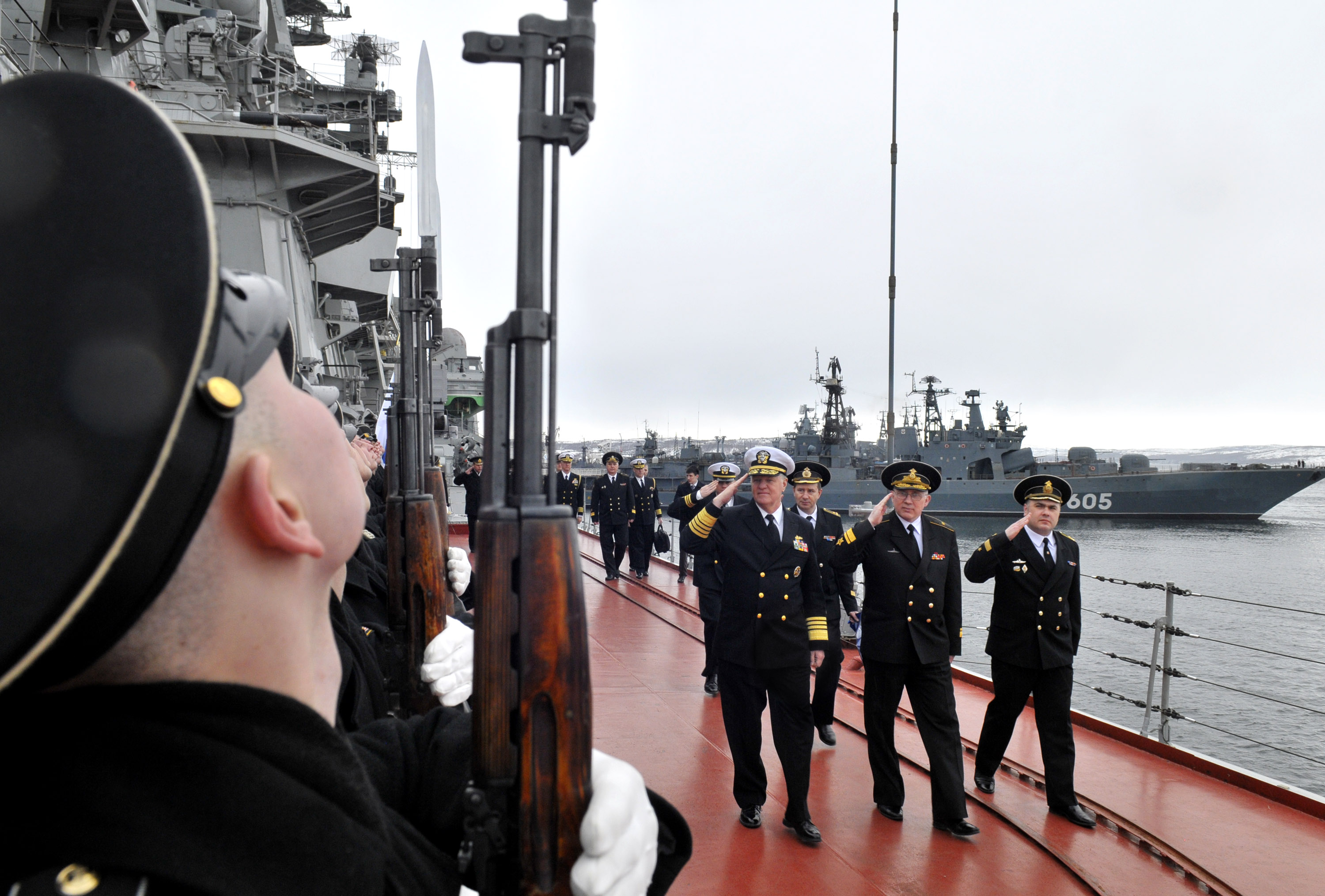 SEVEROMORSK, Russia (April 15, 2011) Chief of Naval Operations (CNO) Adm. Gary Roughead renders honors before departing the Russian Navy nuclear-powered cruiser Pyotr Velikiy during a visit to the Russian Northern Fleet. (U.S. Navy photo by Chief Mass Communication Specialist Tiffini Jones Vanderwyst/Released)